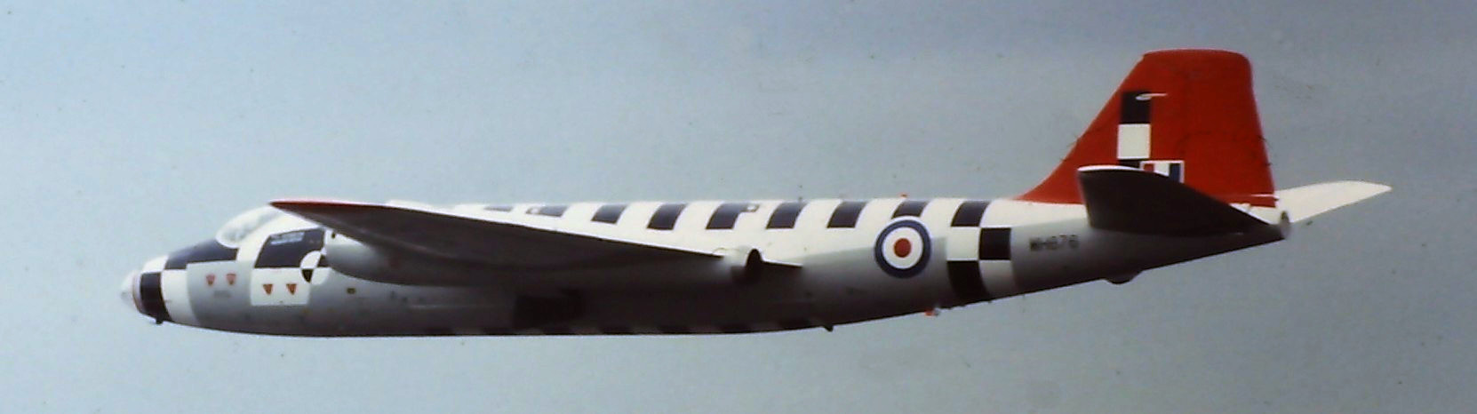 English Electric Canberra B2 "WH876" used as a trials and development aircraft by the Aircraft & Armament Experimental Establishment on display at the International Air Tattoo at RAF Greenham Common. Scanned from slide.